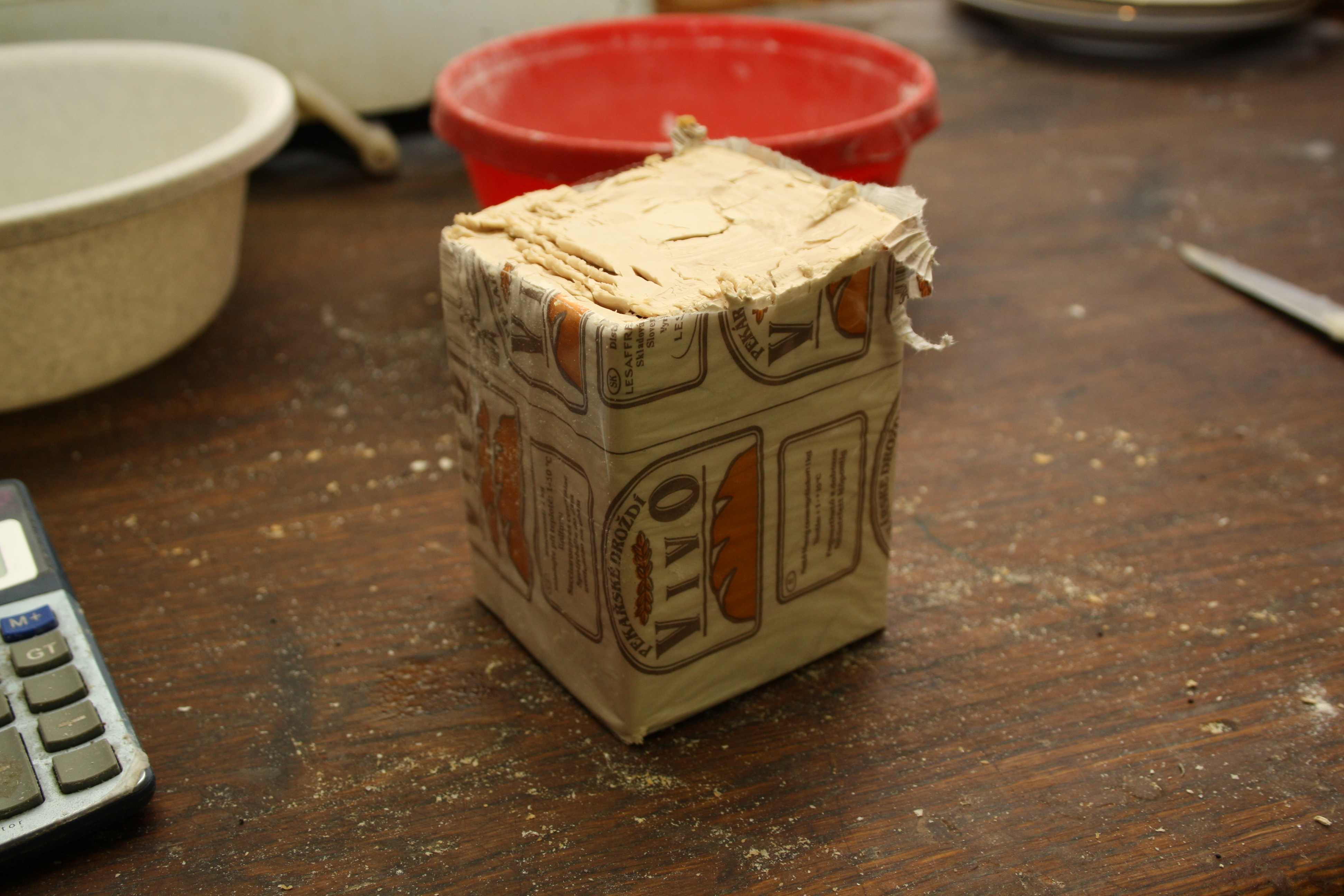 Bakerie's yeast in Czech Republic This photograph was taken with a DSLR from WMCZ's Camera grant. This picture was taken and/or got within the scope of the 'Acquiring scientific and specialized pictures' grant.